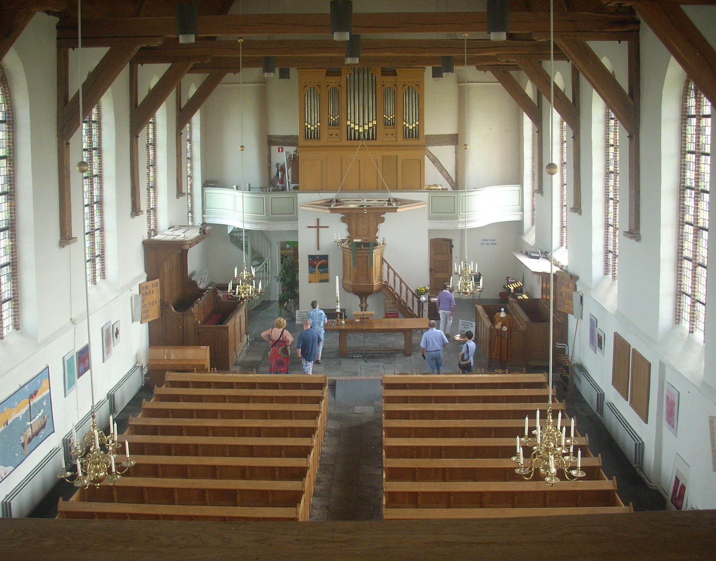 Renesse, Sint Jacobus church, interior